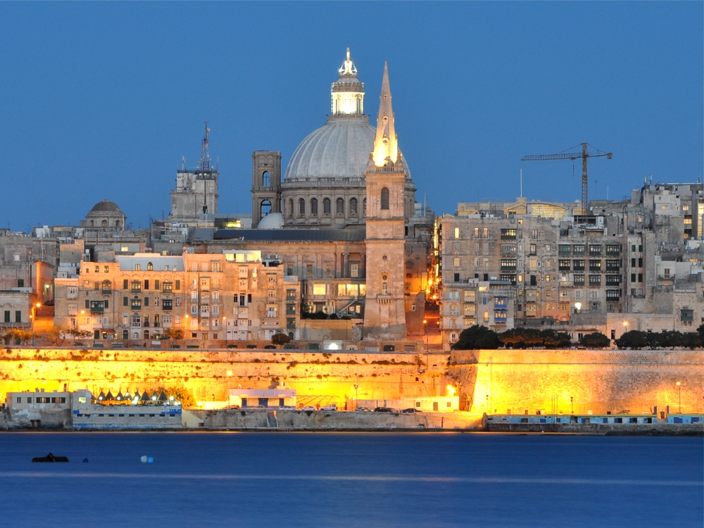 From out at sea, the 63-meter tall spire of St. Paul's Cathedral in Valletta blends in with the dome of Our Lady of Mount Carmel Church. St. Paul's Anglican Cathedral, was the first Protestant church built in Malta. The project was conceived in 1838 by Queen Adelaide, Dowager Queen of King William IV, who at the time was convalescing in Malta due to a serious illness. The site of the church was formerly occupied by the Auberge of Germany, which was dismantled to make room for the new structure. Queen Adelaide contributed the sum of 10,000 pounds, and the first stone was laid in March 1839. The plans were drawn by a British architect, who also supervised the works. When structural defects started to develop, the architect committed suicide. The works stopped for some time and resumed in 1842, under the direction of Frank Scamp, another British engineer who happened to be in Malta, engaged on the construction of the first drydock. The Cathedral was completed in 1844 at a total cost of 20,000 pounds. The skyline of Valletta is dominated by the dome of the Carmelite Church (Our Lady of Mount Carmel), which was the first functional church in Valletta. Its doors were opened in 1570, soon after the Carmolite Friars had been granted a piece of land by Grand Master Pietro del Monte. The church was designed by Gerolamo Cassar, but underwent many susequent modifications and additions (the facade was rebuilt in 1852 to the design Giuseppe Bonavia). Unfortunately, the building suffered extensive damage during World War II because of the Italian and German air raids. The Our Lady of Mount Carmel Church was rebuilt in the years 1958-1981 and today it is by far the most prominent building of the Valletta's skyline. Its dome is supported by twelve Corinthian columns of a rusty red marble (the dome’s structure is made of concrete, and covered in native Maltese stone).